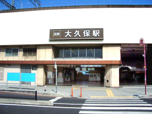 This photo is the west side of Okubo station ,Kinki-Nippon Rail Road (KINTETSU), Uji City, Kyoto Pref. This side has bus platform.